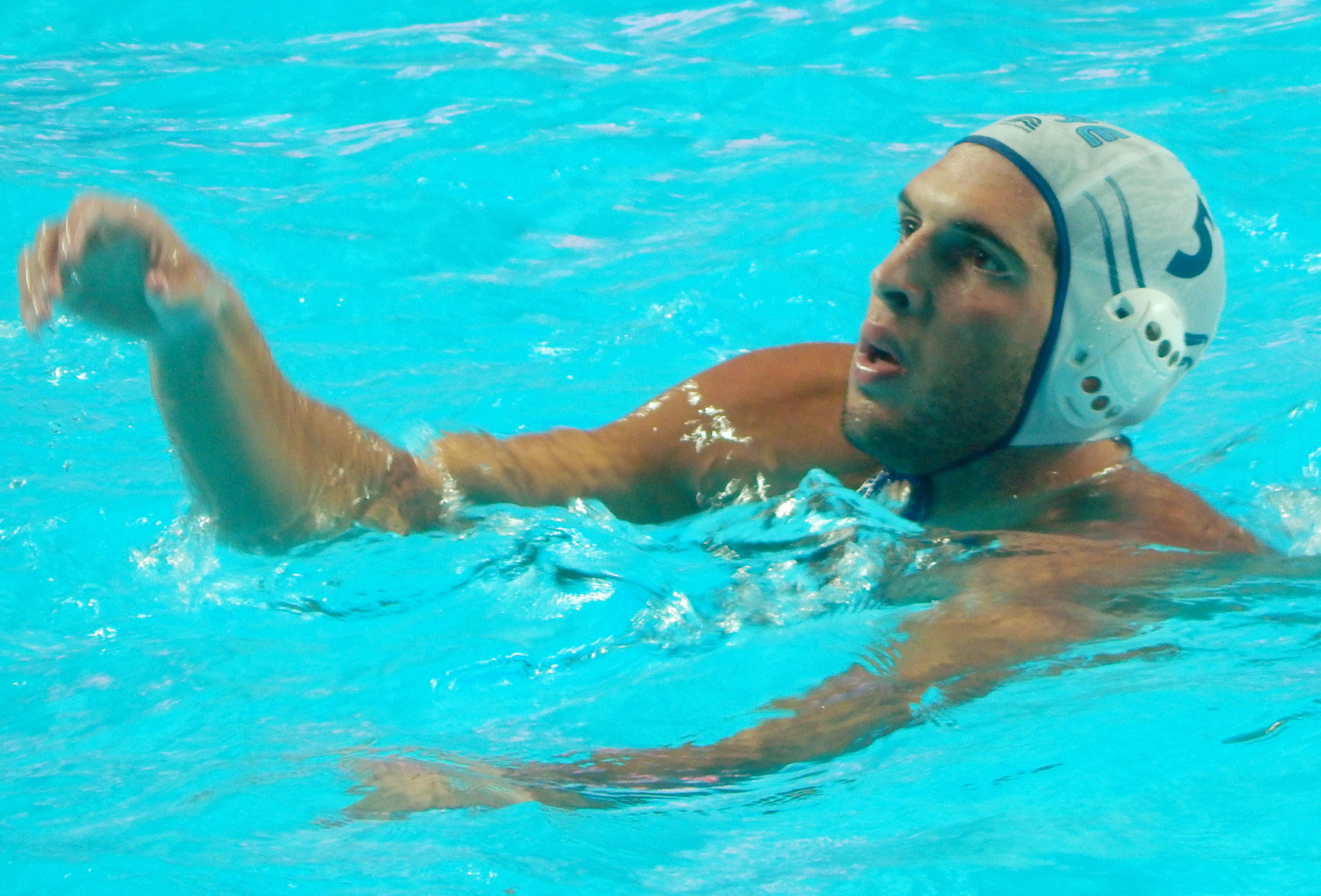 The bronze medal match between Team Greece and Team Italy. All photos have been taken from the photographers sector. I was simply usual visitor but my ticket was to non-existent seats, therefore I was moved to that sector. All good photos I upload to WikiCommons for free use.